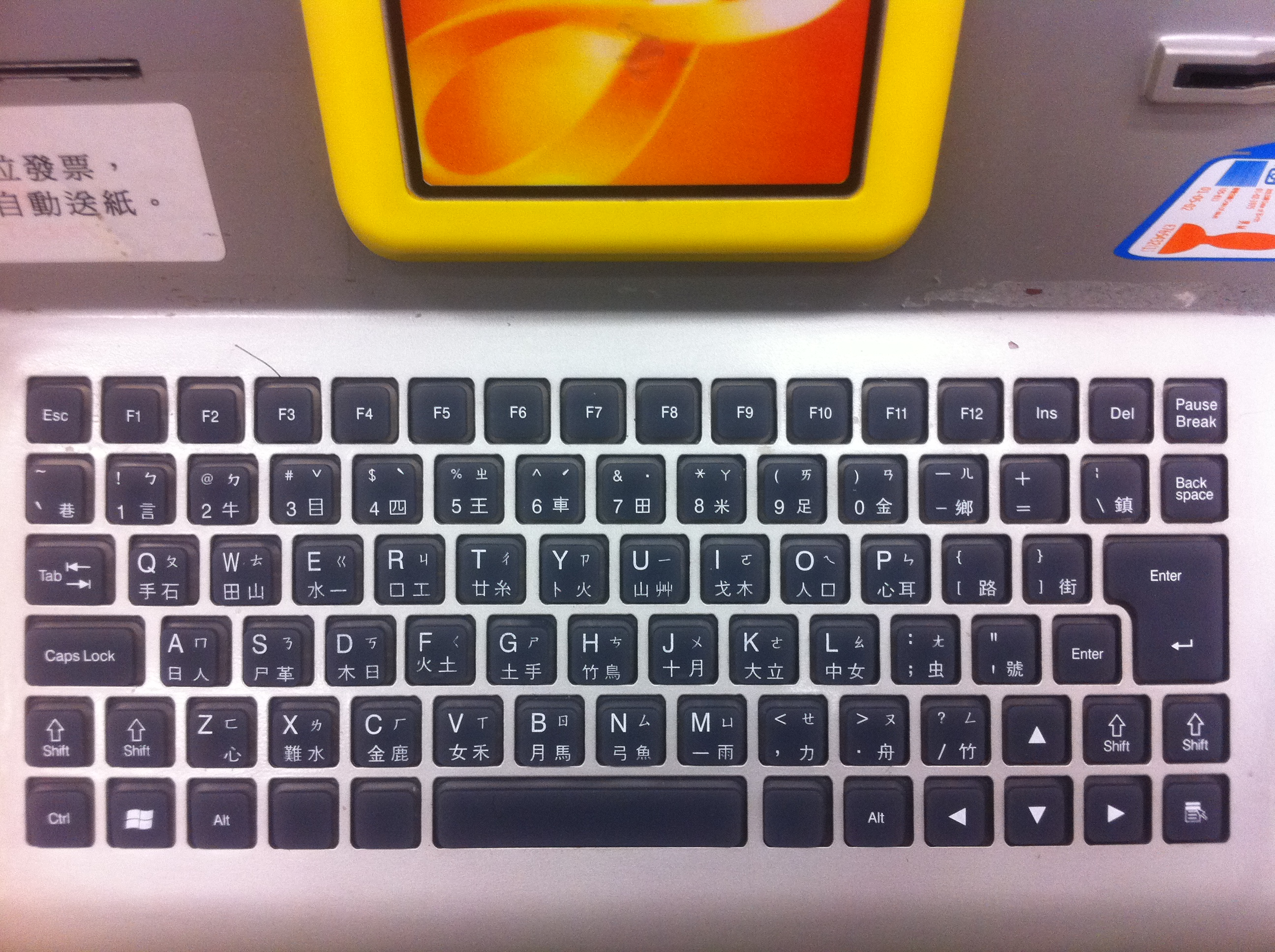 石塘咀市政大廈 Shek Tong Tsui Municipal Services Building 電腦鍵盤